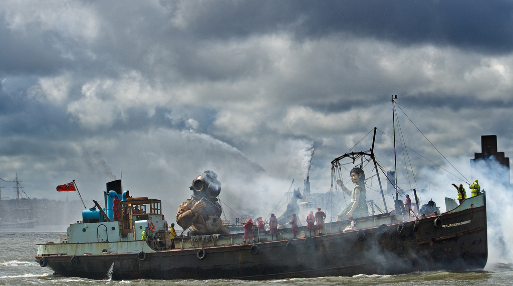 The finale of Liverpool's 2012 street theatre event 'Sea Odyssey: Giant Spectacular', three giant marionettes set sail on the River Mersey